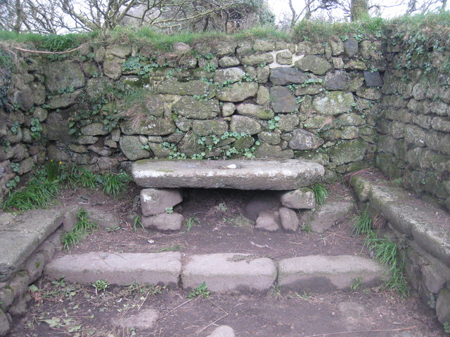 The altar stone in Madron Chapel Whilst only the walls of the chapel structure remain, some of the internal features still exist.